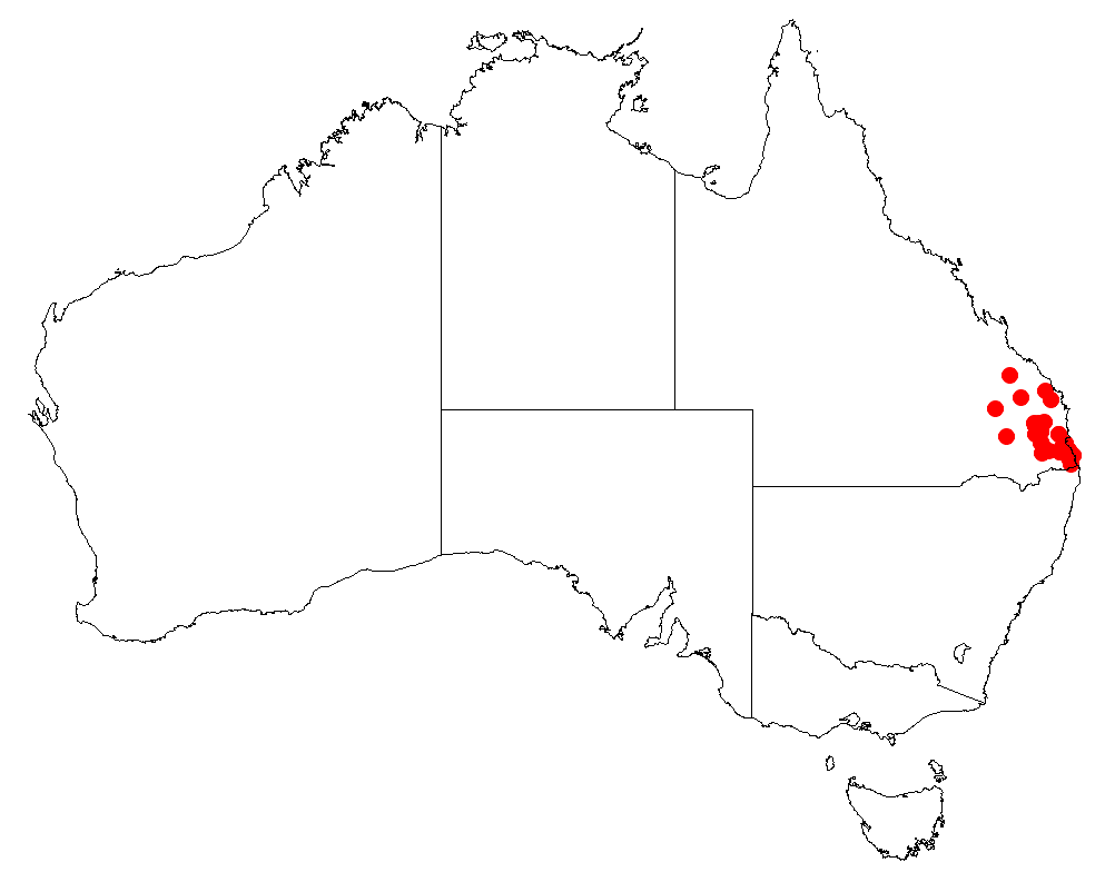 Parsonsia brisbanensis Occurrence data for Australia from Australasian Virtual Herbarium downloaded 22 December 2018